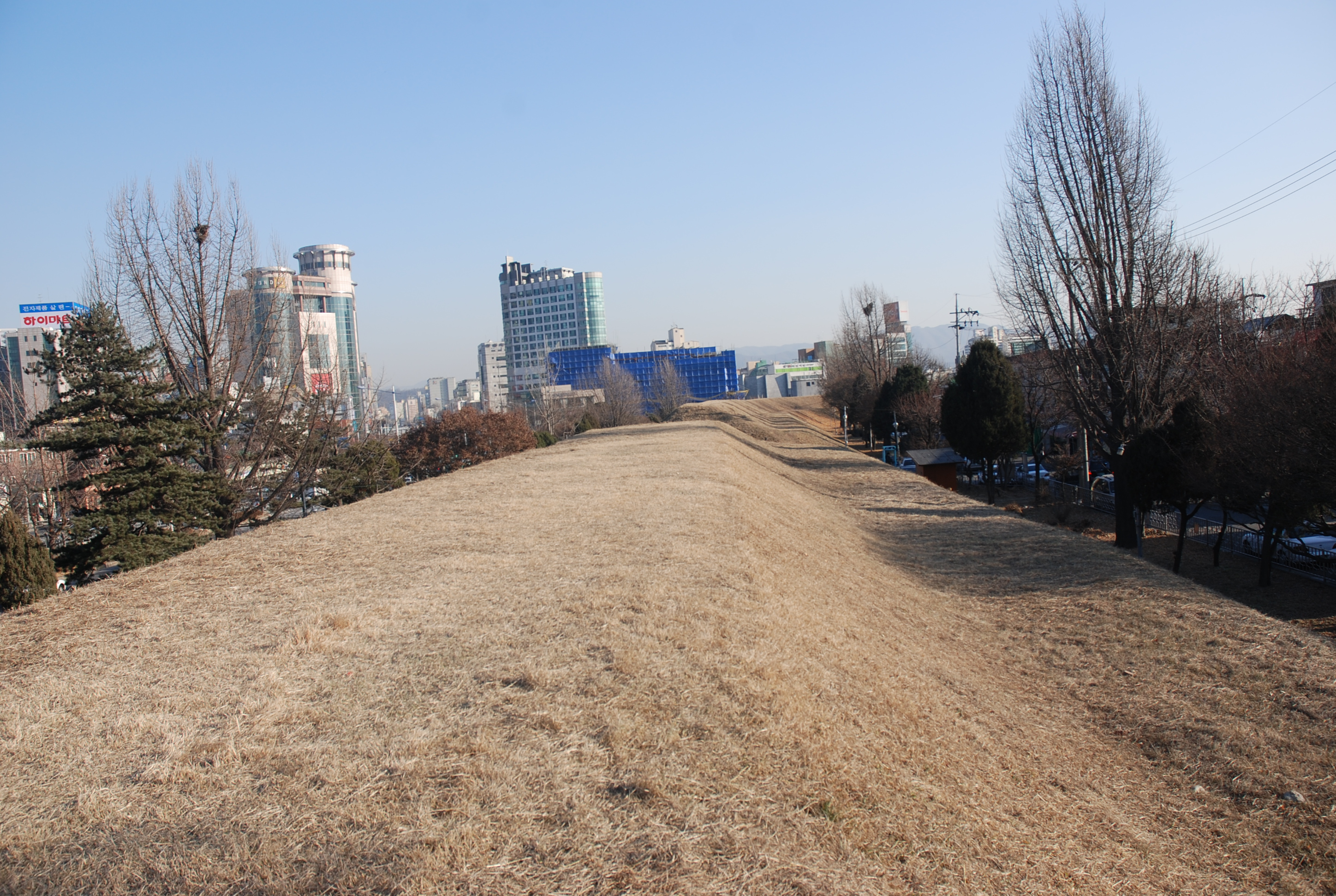 Pungnap Toseong, Seoul, Korea